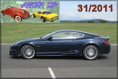 Auta5P